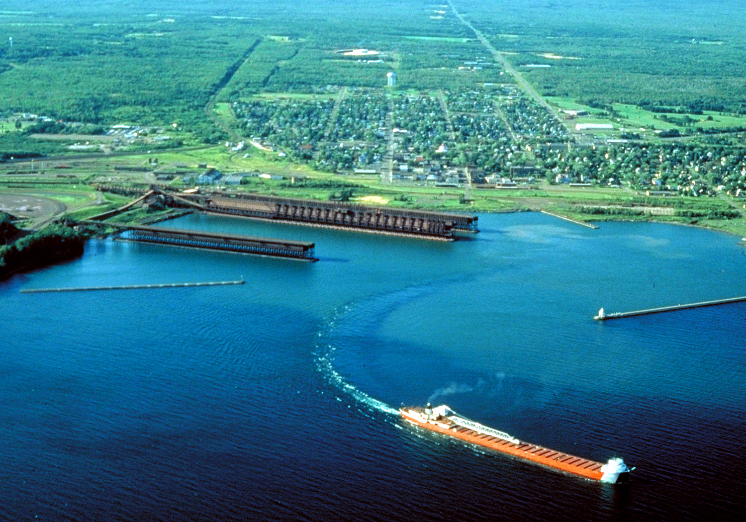 Aerial view of Two Harbors, Minnesota, on the north shore of Lake Superior. A Great lakes freighter is departing the harbor.